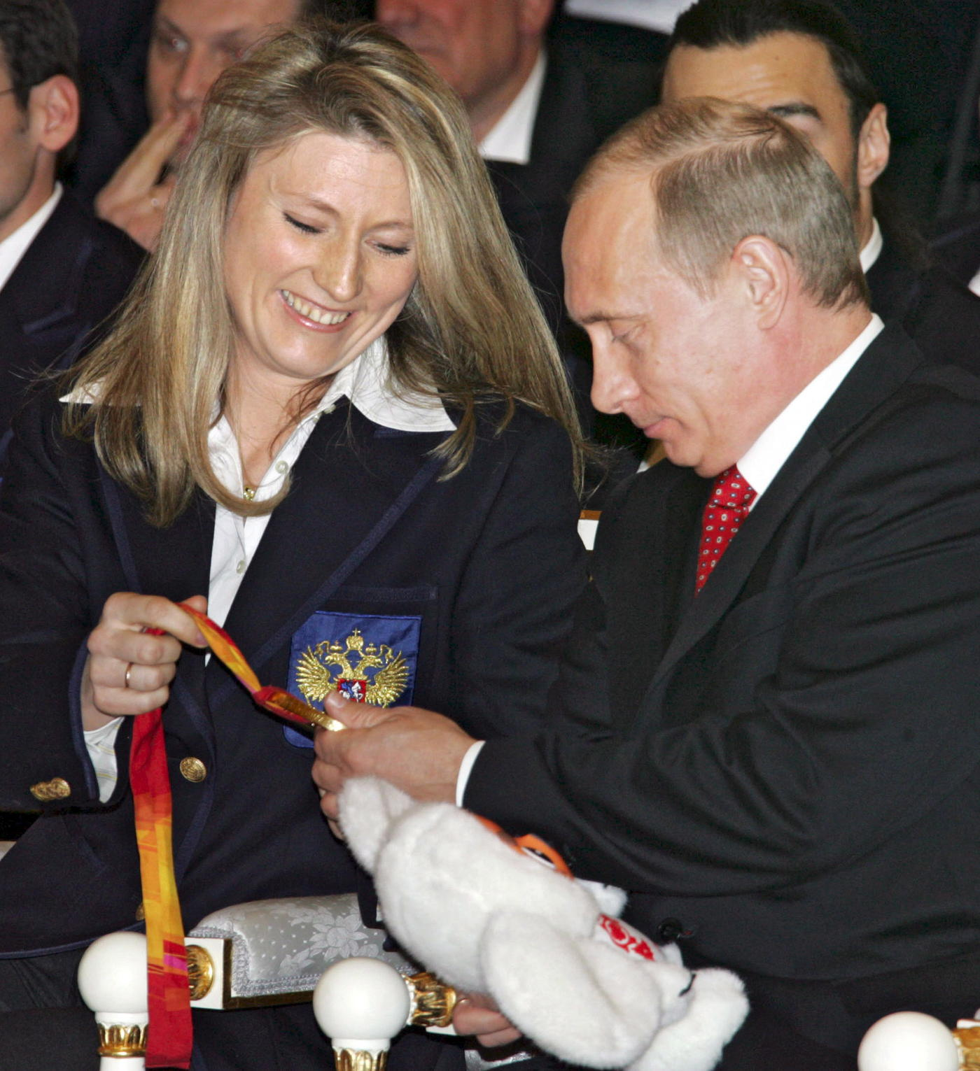 Svetlana Zhurova in Kremlin